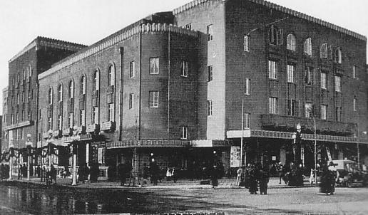 Meijiza in 1933